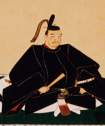 池田光政（第5代岡山城主）、Ikeda Mitsumasa(the 5th Okayama castellan)